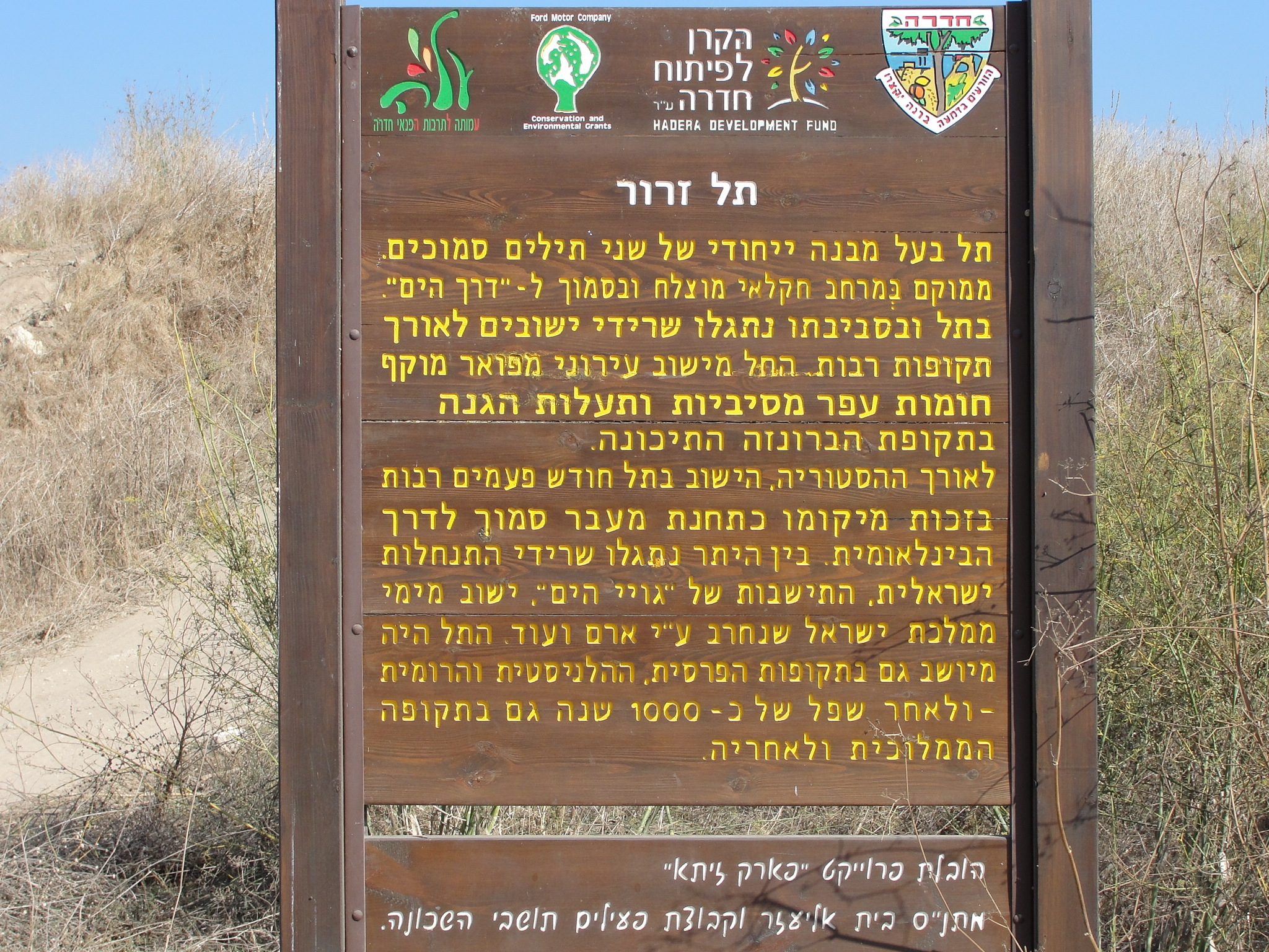 Tel Zeror, sign at site